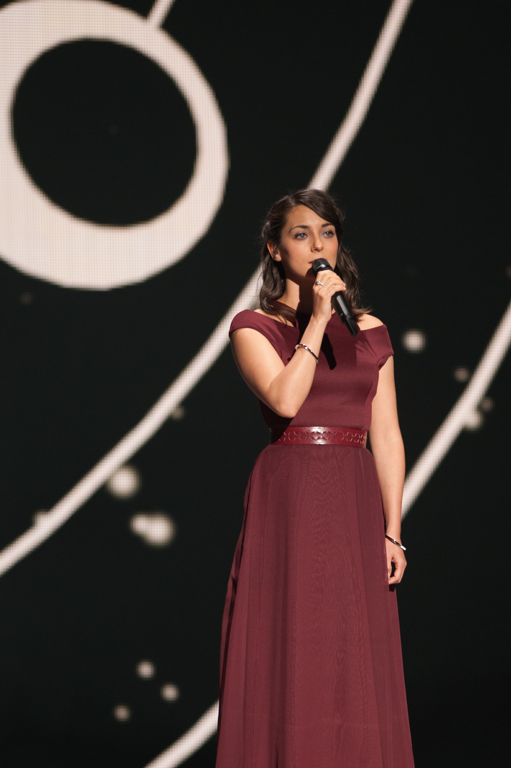 Eurovision Song Contest Vienna 2015: Boggie